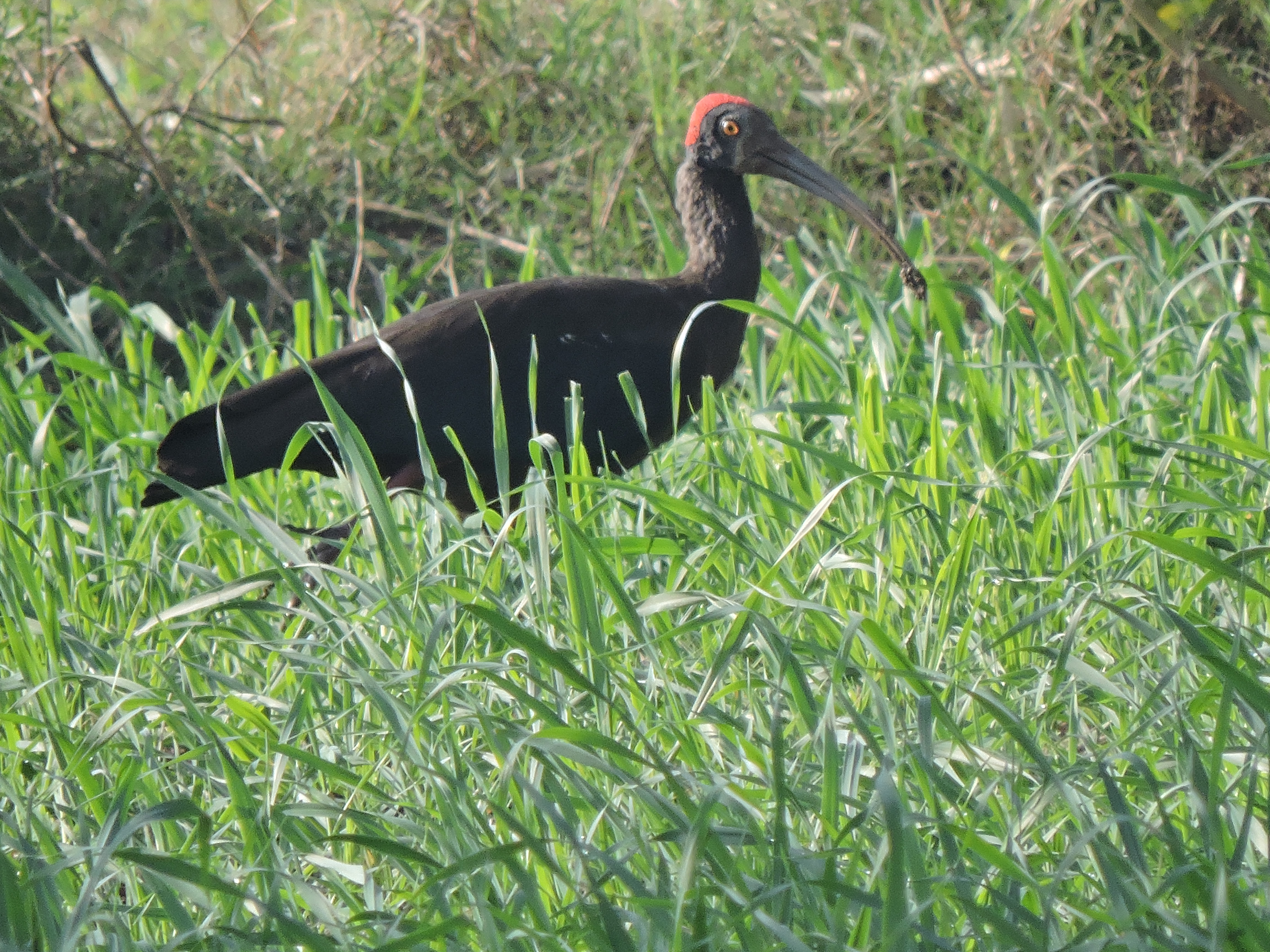 Ibis, village Behlolpur, District Mohali, Punjab ,India